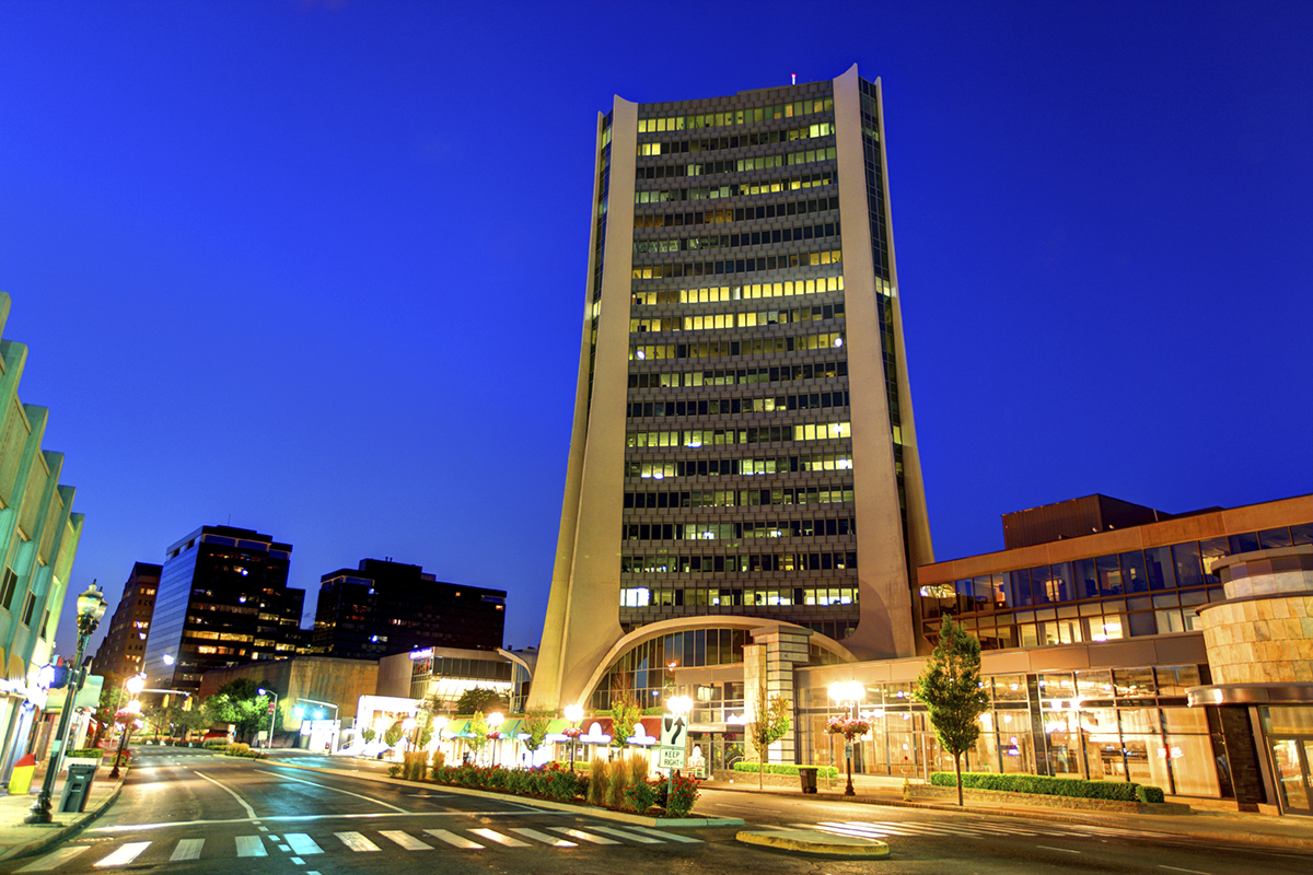 Nighttime shot of the One Landmark Square building in Stamford Connecticut, the second tallest building in the city.